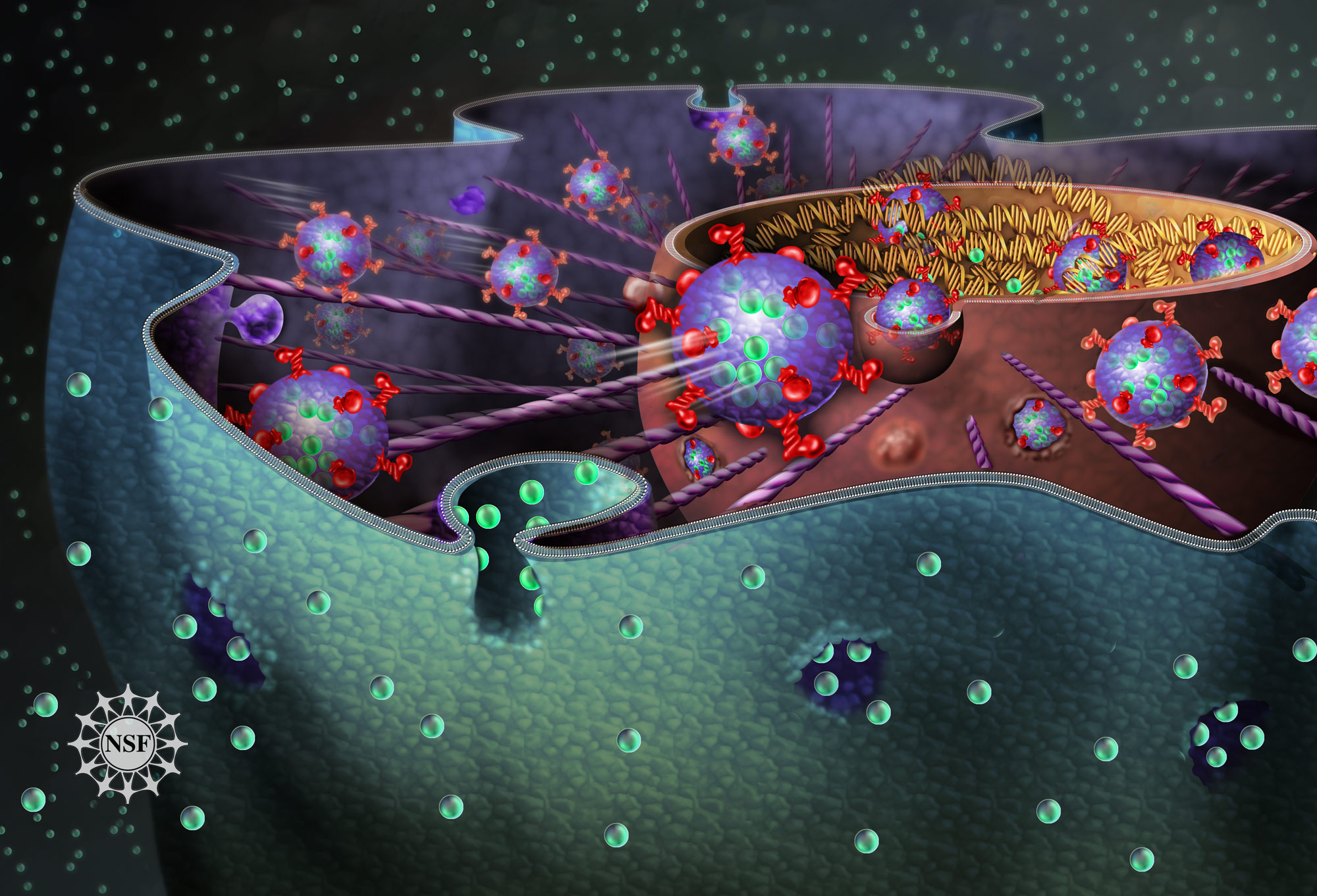 Phagocytosis and endocytosis: the cell membrane pinches together, forming an intracellular membrane-bound compartment, called a phagosome or endosome, that contains extracellular material. The phagosome travels from the cell membrane to the lysosome, and then is engulfed by the lysosome, releasing its contents.